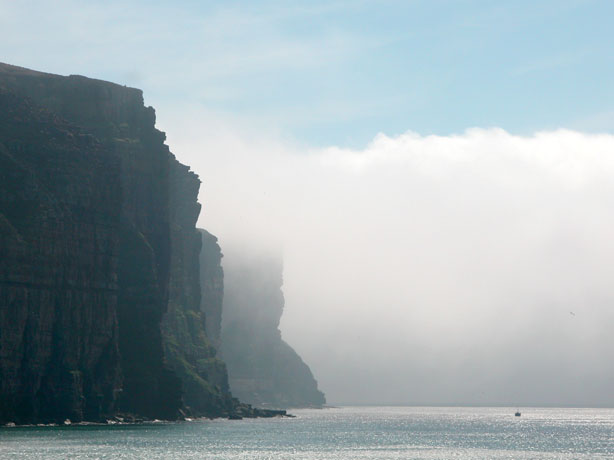 Cliffs south of Rackwick, Hoy. The magnificent sea cliffs on the Atlantic coast of Hoy, Orkney.